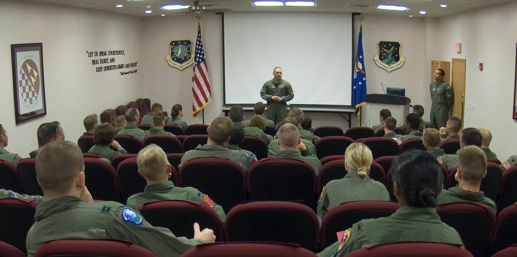 Lt. Col. Jed Davis addresses missile combat crewmembers from the 91st Space Wing Aug. 18 during a pre-departure briefing at Minot Air Force Base, N.D. Following the briefing, the crews depart for their respective missile alert facilities scattered across the northwest part of the state where they monitor the Minuteman III missiles under their control. Colonel Davis is the 741st Missile Squadron commander.